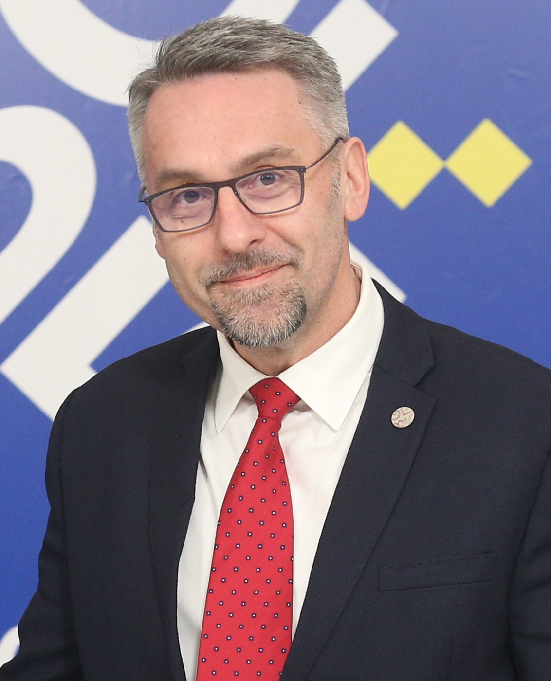 Valentin Radev, Interior Minister of the Republic of Bulgaria (left), Lubomír Metnar, Minister of the Interior of the Czech Republic